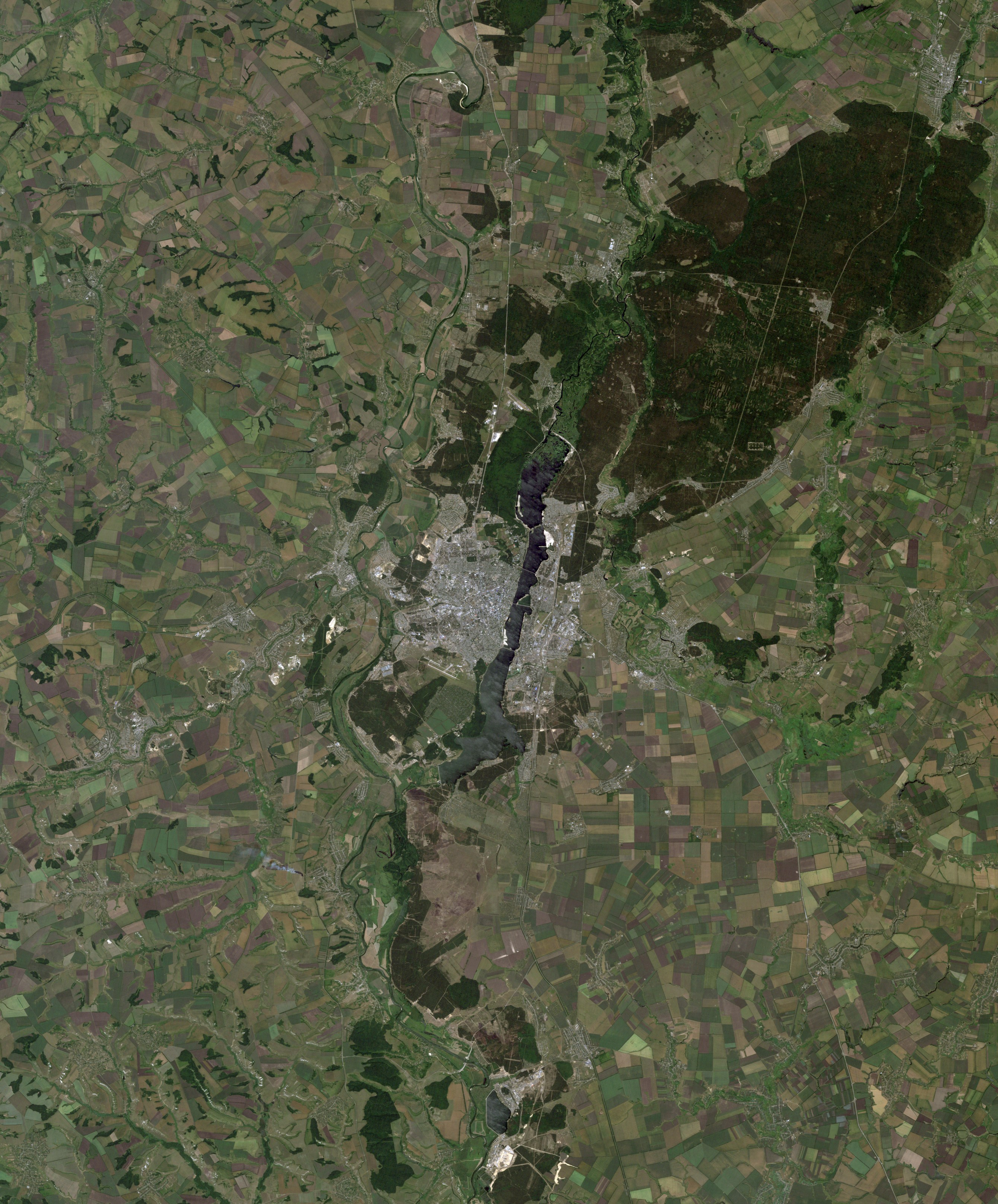 Voronezh, Russia, city and vicinities, satellite image ,LandSat-5, 2010-06-24, near natural colors, resolution 30m